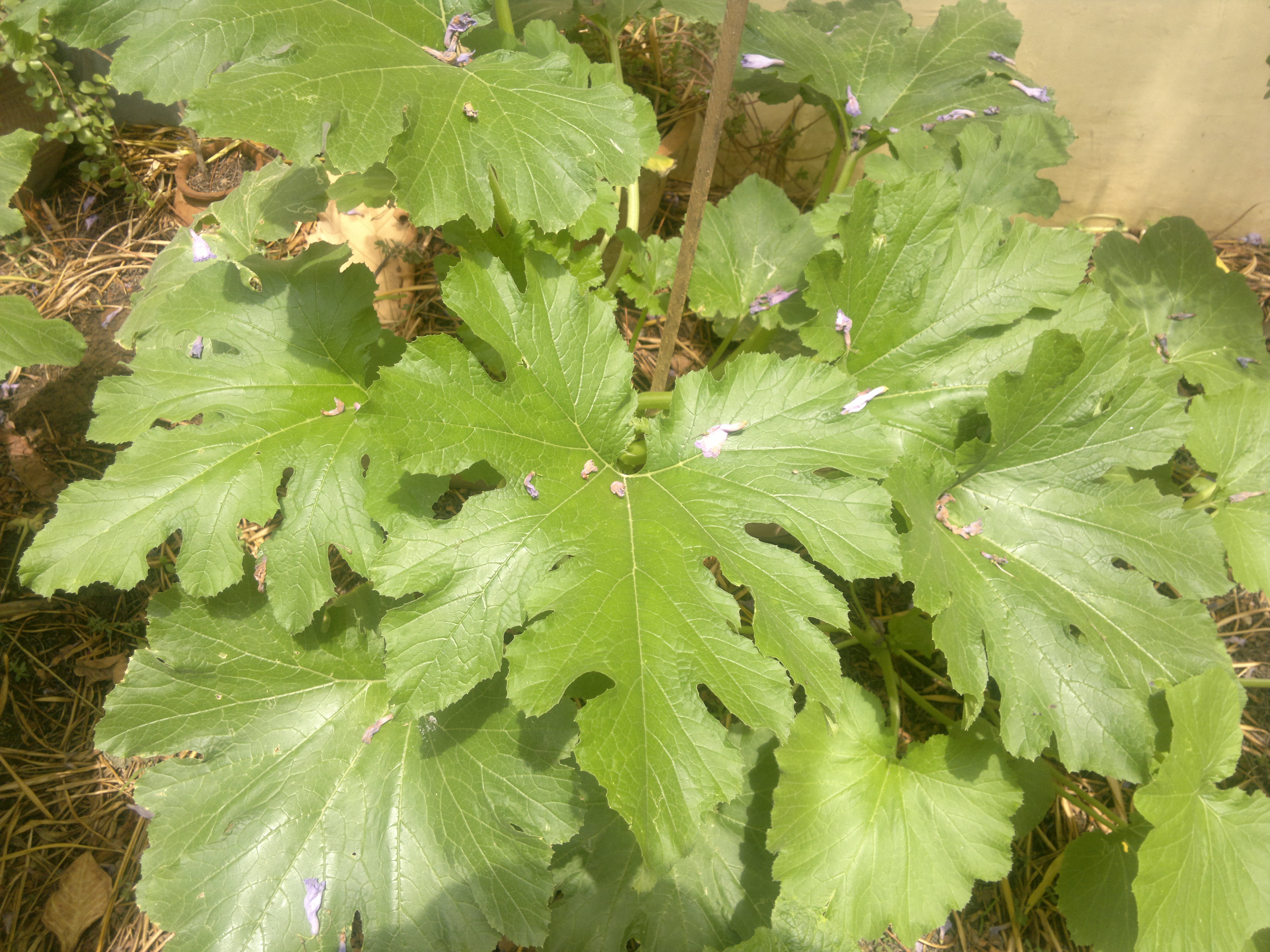 these huge leaves belong to a single Zucchini plant. The patch is frequently showered with flowers from the Jacaranda tree right above it.